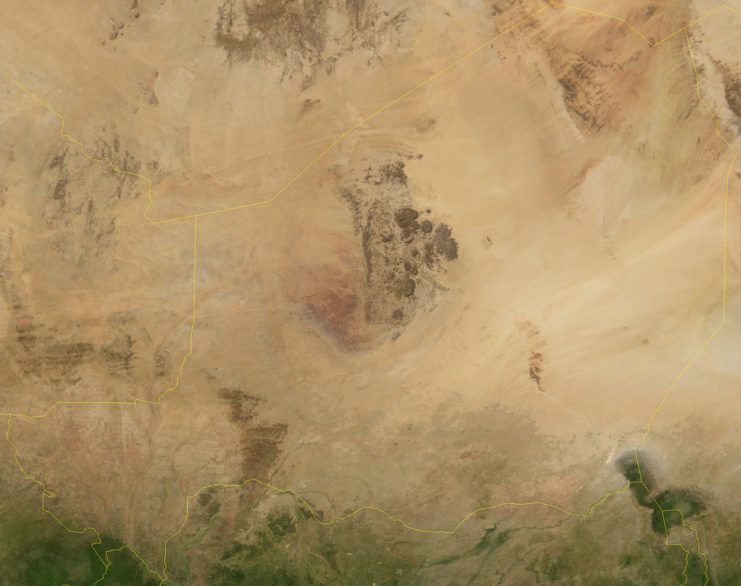 Satellite image of Niger in September 2004. Blue Marble Next-Generation image.